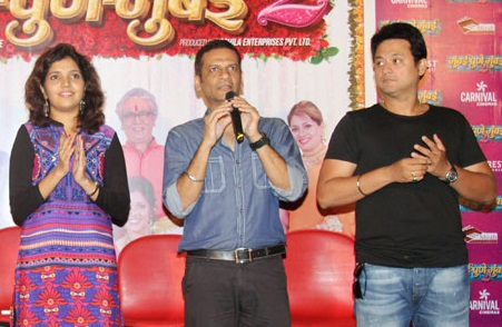 Mukta Barve, Swapnil Joshi and Satish Rajwade at Trailer launch of Marathi film 'Mumbai Pune Mumbai 2'